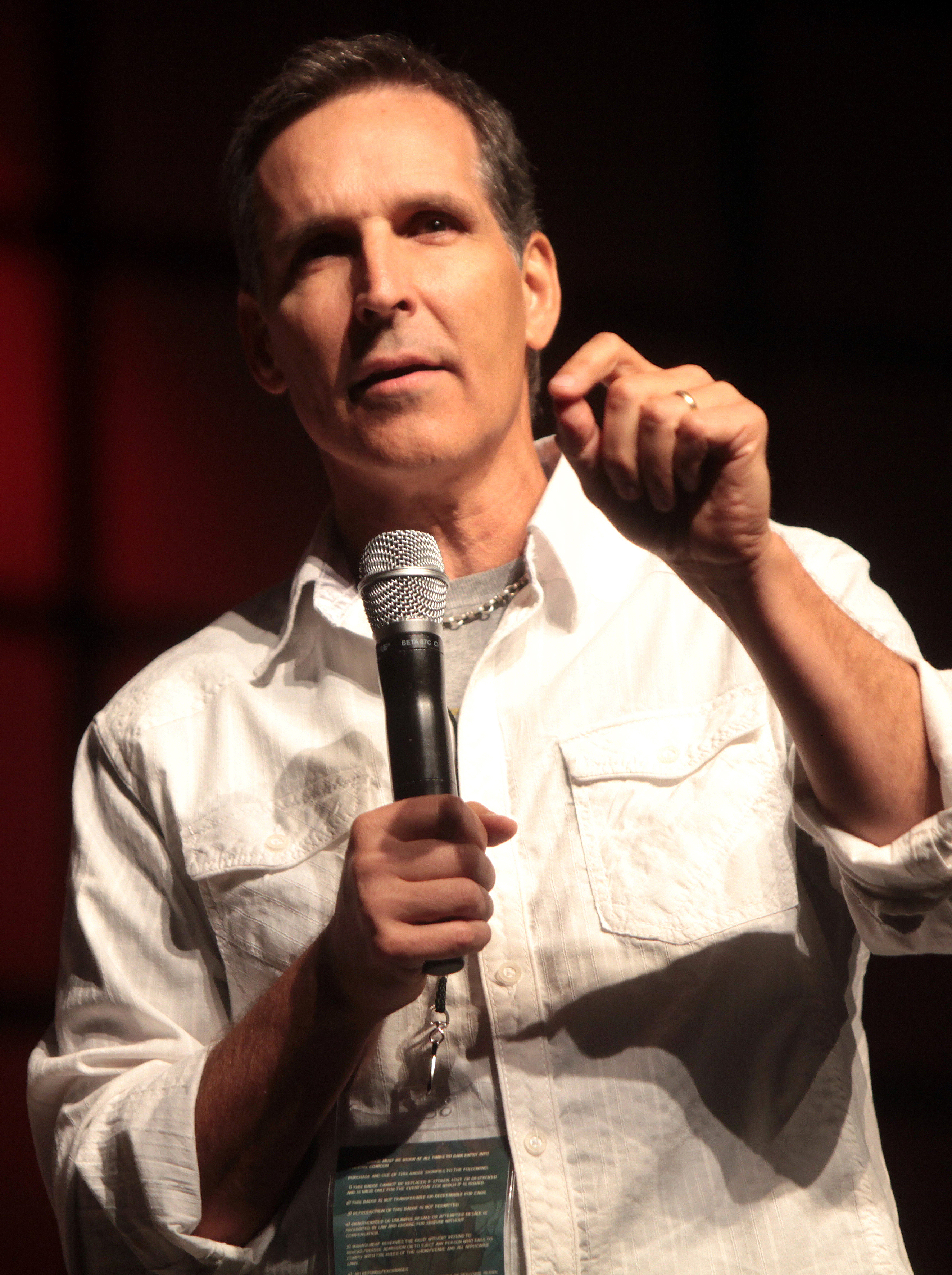 Todd McFarlane speaking at the 2014 Phoenix Comicon in Phoenix, Arizona.